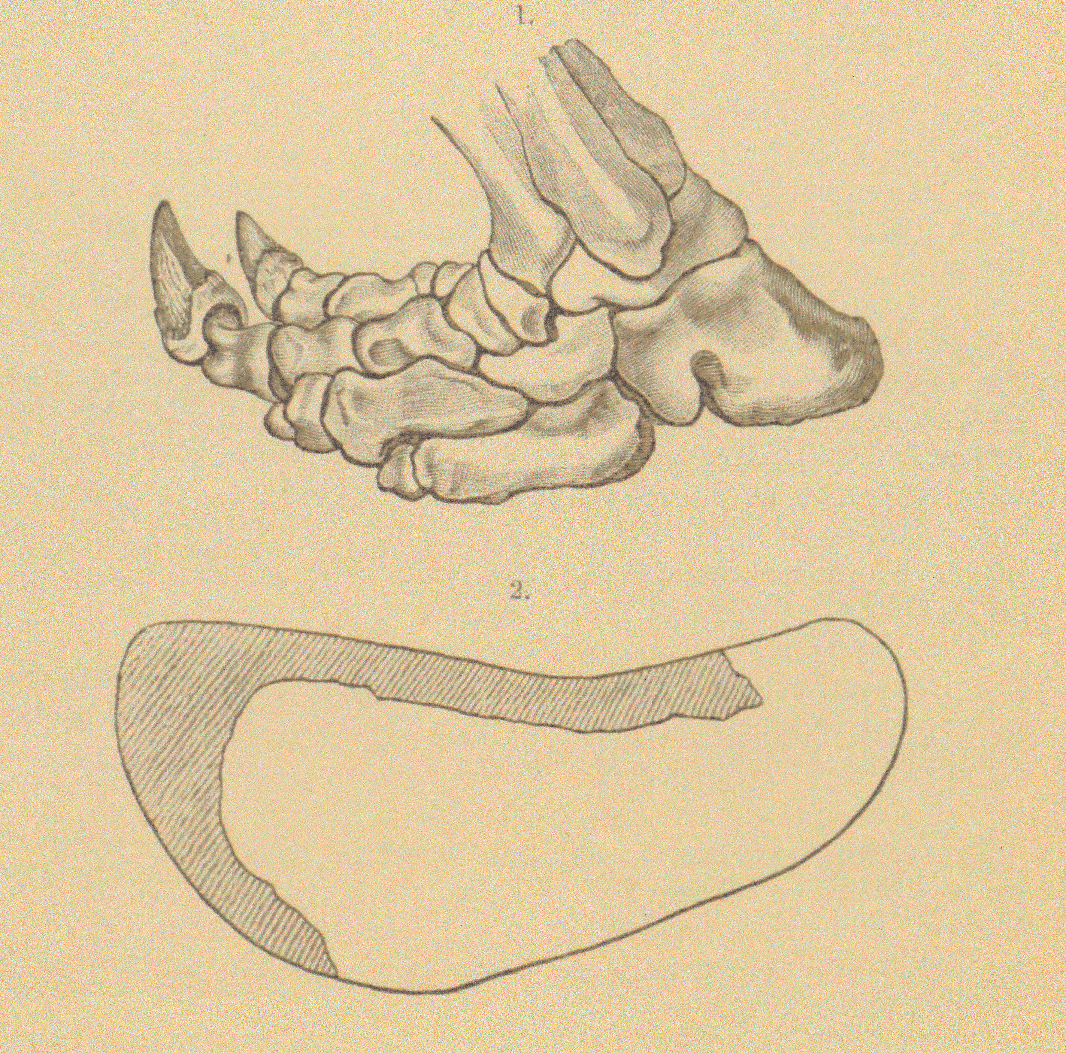 Imprint of on the Nevada State Prison-site close to Carson City and reconstruction of the foot skeleton of Paramylodon published by Othniel Charles Marsh: On the supposed human foot-prints recently found in Nevada. American Journal of Science 152, 1883, pp. 139–140